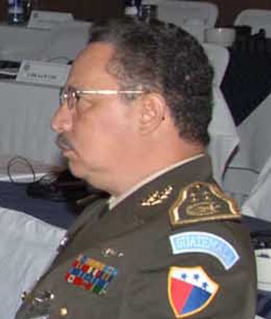 Brigadier General Francisco Bermúdez Amado Minister of National Defence of Guatemala, cropped from U.S. Army photo: "Guatemalan army Brig. Gen. Carlos Villagran, left, and U.S. Army Brig. Gen. Jose Mayorga, from U.S. Army South, brief President of Guatemala Oscar Berger, seated center, prior to the closing ceremony of exercise Peacekeeping Operations North 06 in Guatemala City, Guatemala, June 22, 2006. Villagran and Mayorga are exercise co-directors for the exercise that brings together 22 nations from Central America and the Caribbean to share ideas on peacekeeping issues. (U.S. Army photo by Kaye Richey) (Released)"